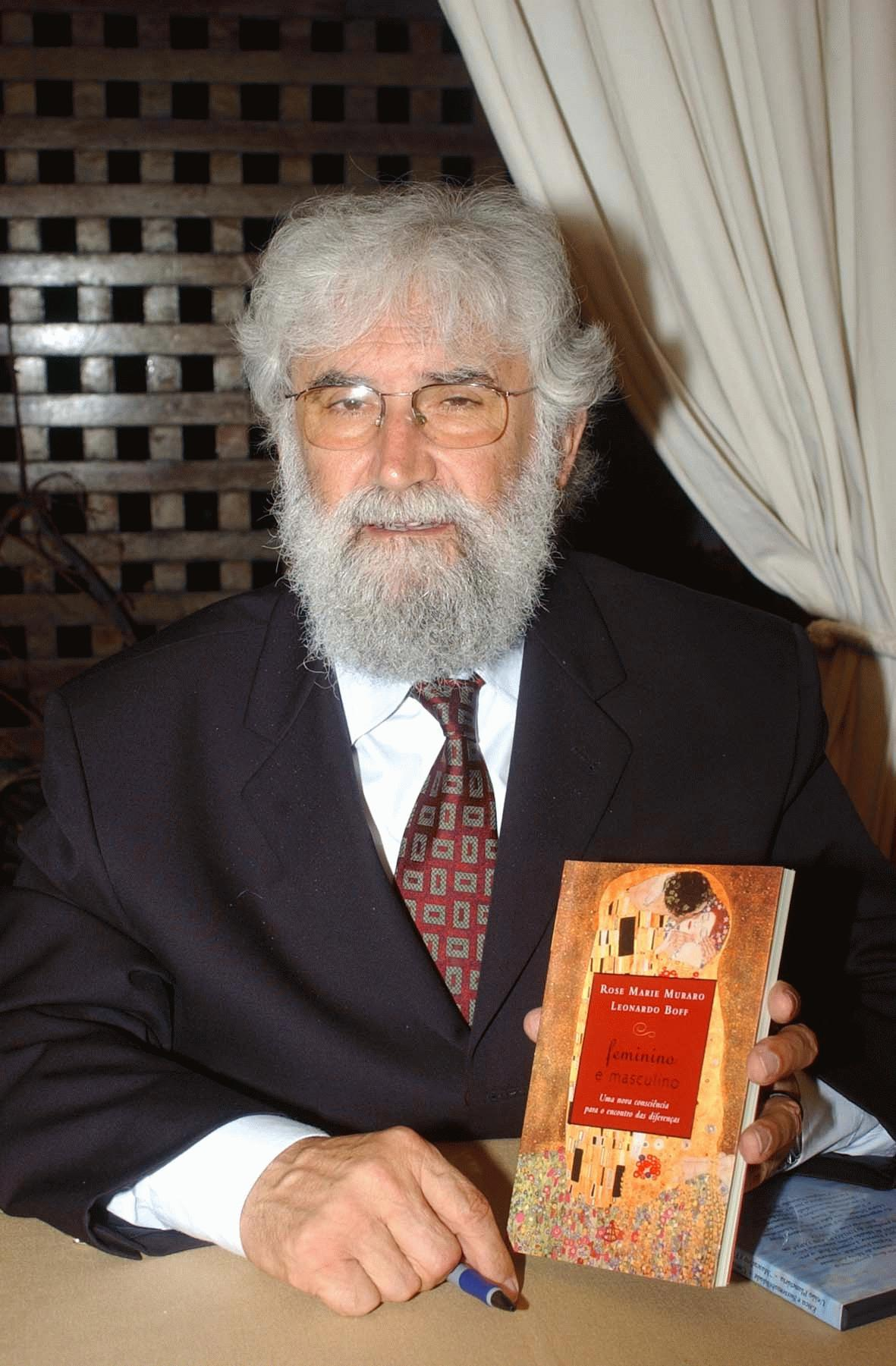 Leonardo Boff presents his book, "Masculino e Feminino".